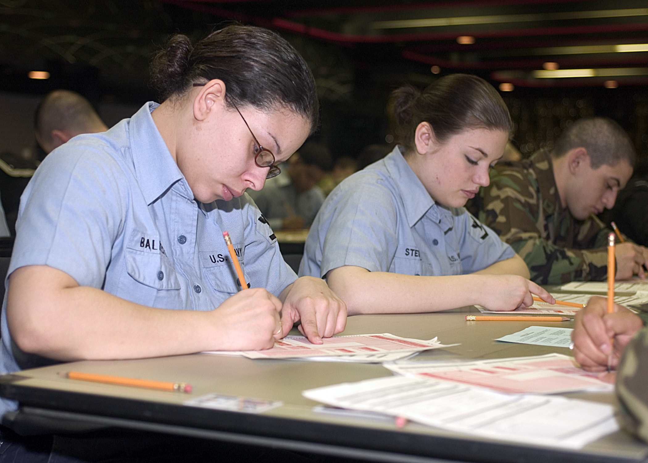 Yokosuka, Japan (Mar. 10, 2005) - Hospital Corpsman 3rd Class Vanessa Balleste of Salinas, Puerto Rico, prepares her answer sheet prior to the start of the Navy-wide Second Class Advancement Examination. The exam, given twice a year, allows Sailors to compete for promotion to the next higher paygrade. U.S. Navy photo by Photographer's Mate 2nd Class Crystal Brooks (RELEASED)